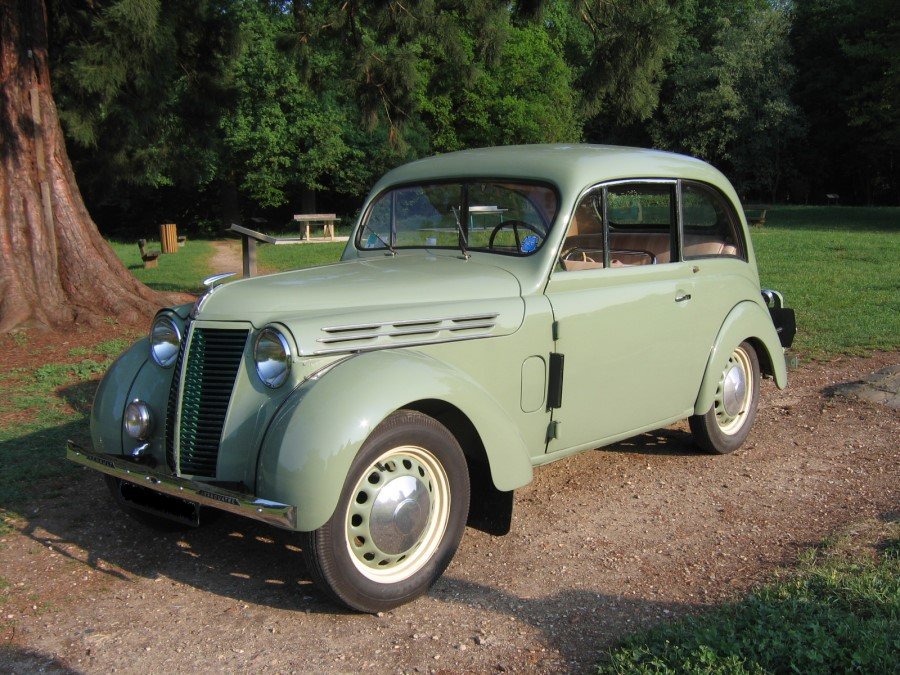 JUVAQUATRE COACH AEB2 1938